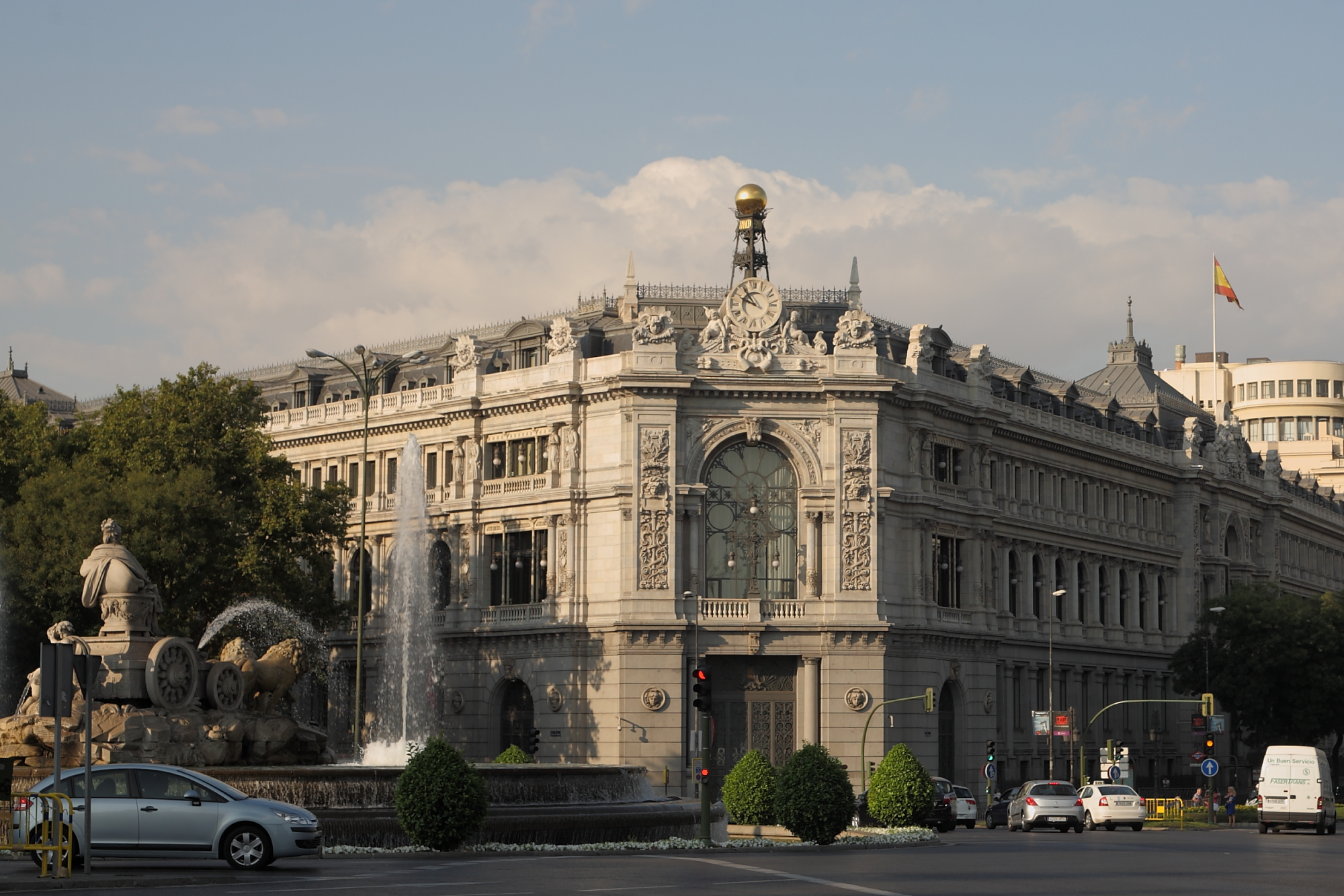 View of the Bank of Spain headquarters (Madrid) from Plaza de Cibeles (square).